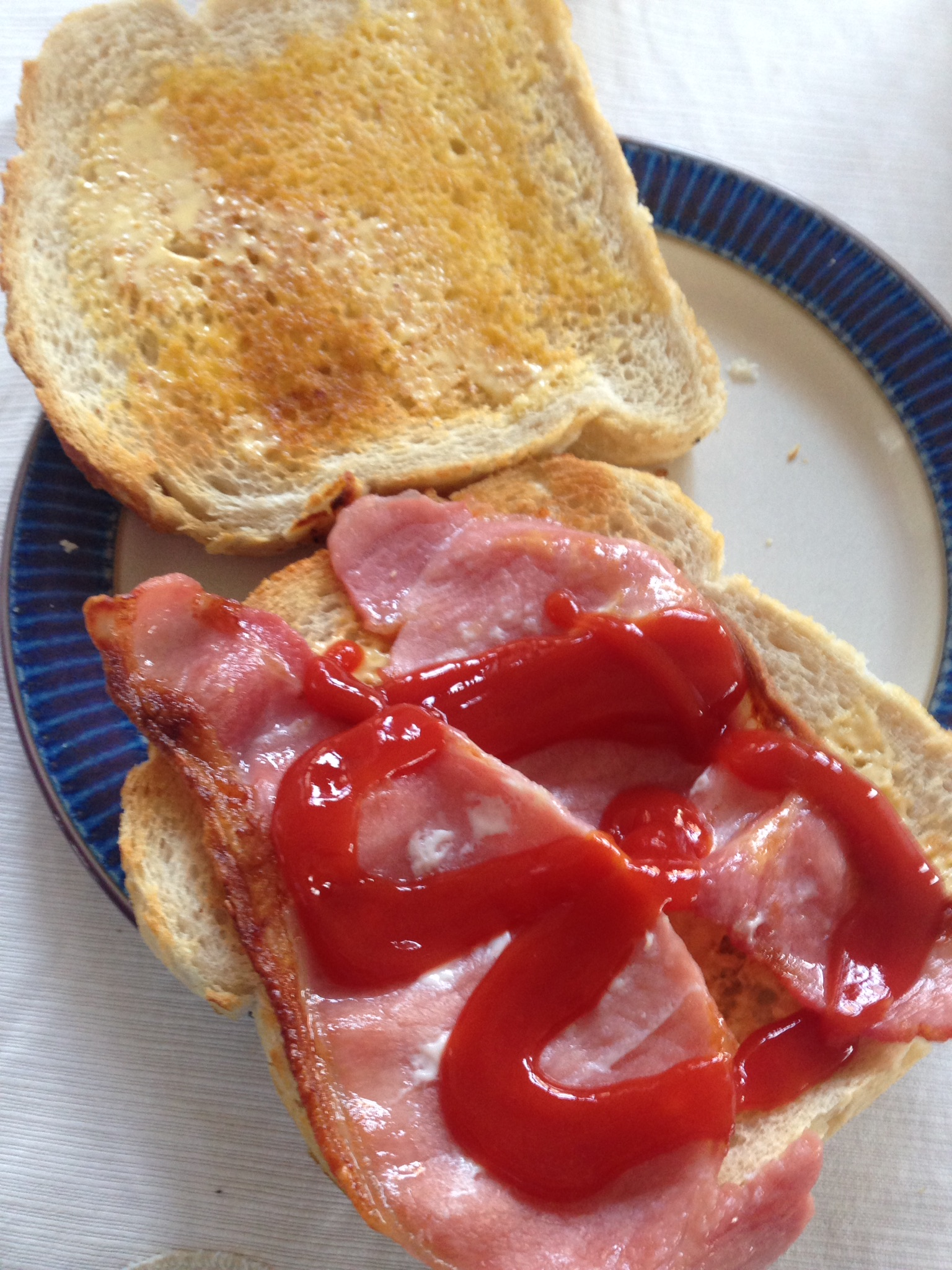 A photograph of a bacon sandwich with tomato ketchup